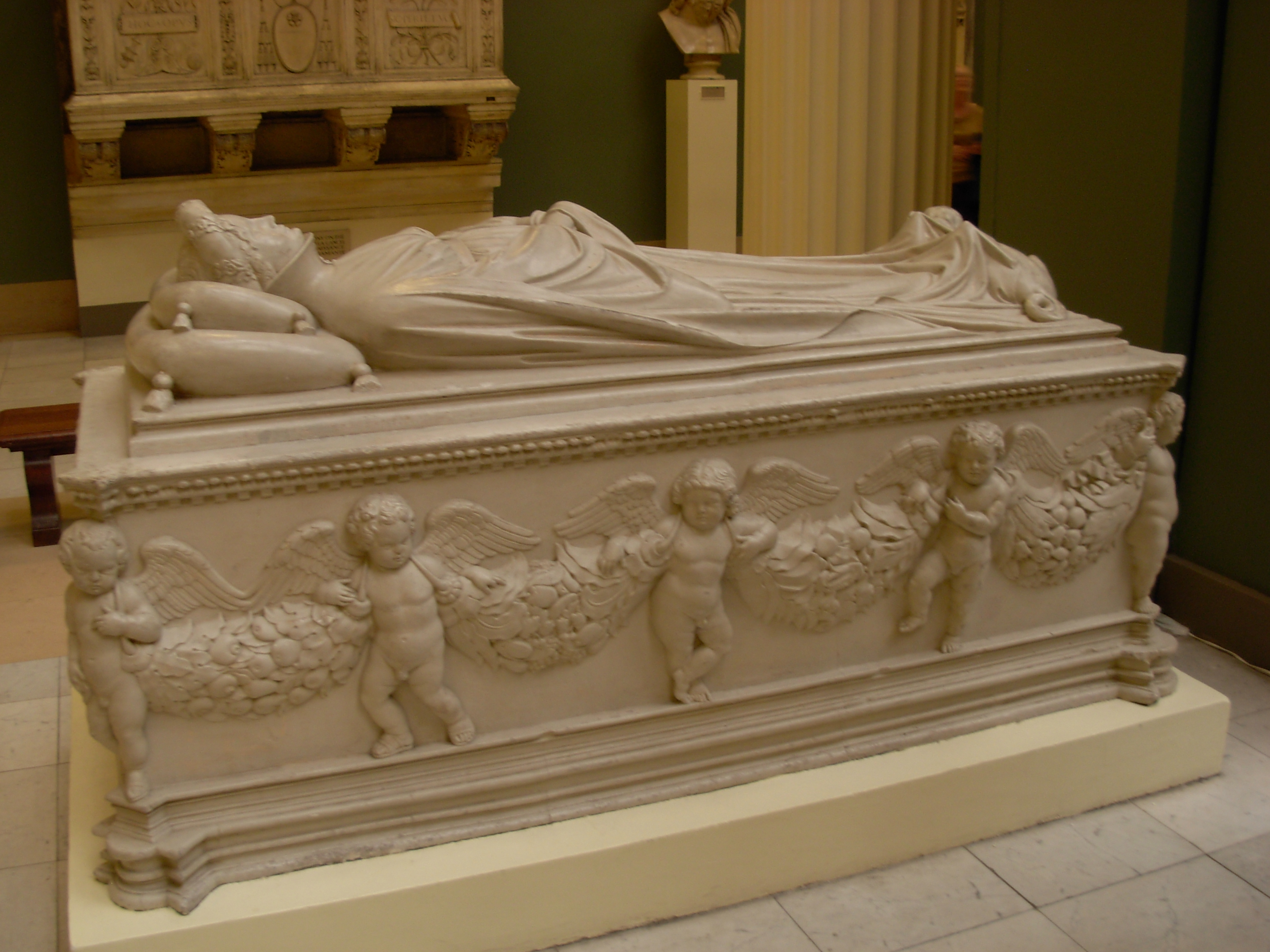 Cast, on display at the Carnegie Museum, of the tomb and monument of Ilaria Del Carretto by Giacomo (Jacopo) Della Quercia in the Cathedral of San Martino at Lucca. Italian Renaissance. C. 1413 AD